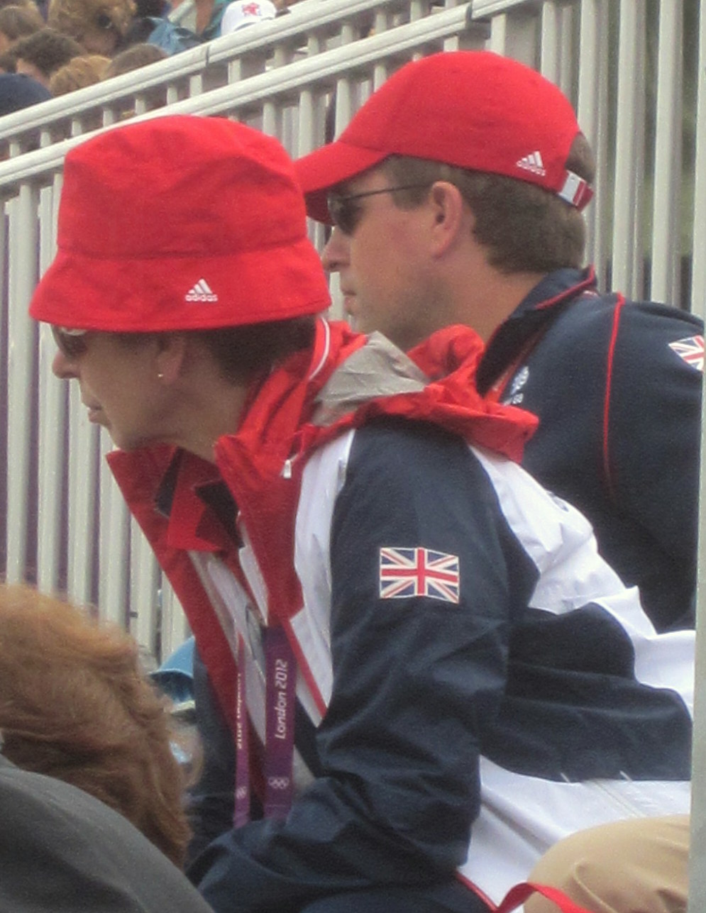 Princess Anne and Peter Phillips at the Team Dressage Final